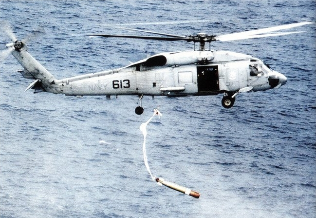 A U.S. Navy Sikorsky SH-60F Seahawk (BuNo 164798) from Helicopter Anti-Submarine Squadron HS-14 "Chargers" dopping a Mk 46 torpedo. HS-14 was assigned to Carrier Air Wing 5 (CVW-5) aboard the aircraft carrier USS Independence (CV-62).